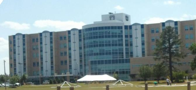 East Carolina Heart Institute at Vidant Medical Center in Greenville, North Carolina.